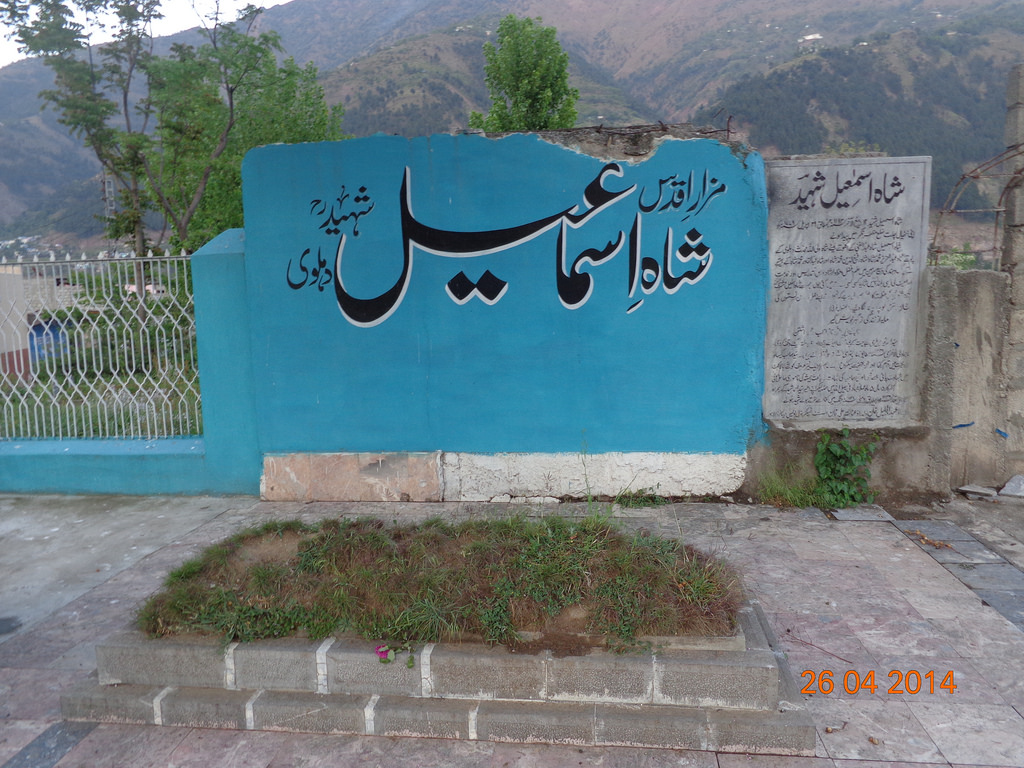 Photographer : Ahmad Abdullah Saqib